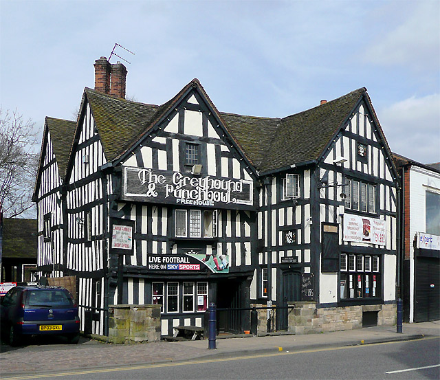 The Greyhound and Punchbowl in Bilston, Wolverhampton, near to Bilston, Wolverhampton, Great Britain. This Grade II* listed mid 16th century building (with earlier origins) is in Bilston High Street. At present it seems that draping huge banners about television and breakfasts Link across this listed building is being tolerated. The owners must have no regard whatsoever for the appearance of what they have got. I shall add more details soon, including comment on whether the service inside reflects the attitude towards the outside. An image of the house, and many details, without brash commercial graffiti coverings can be seen on the local history website here: Link